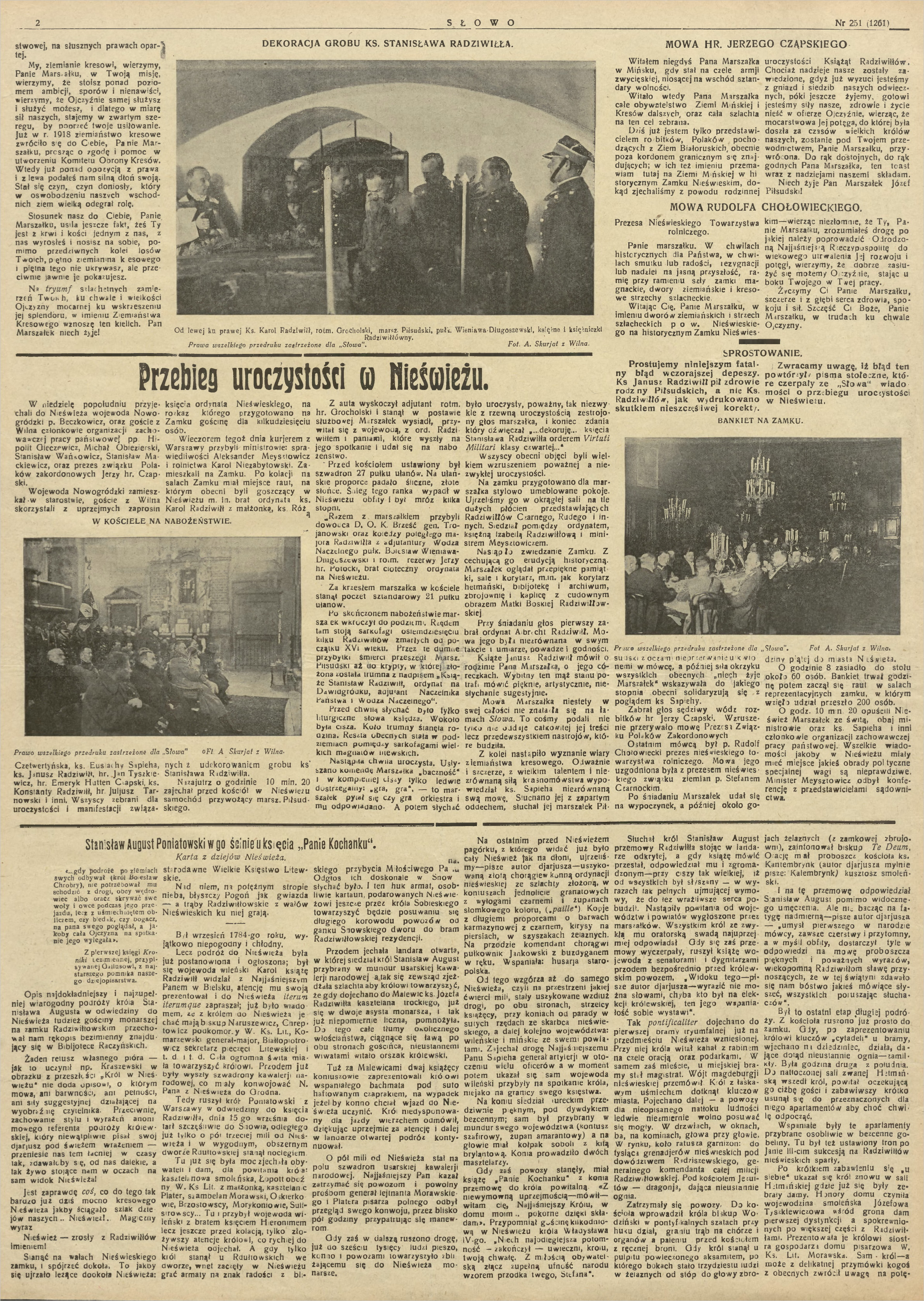 second page of newspaper "Słowo" (#251, 1926 AD), Poland.